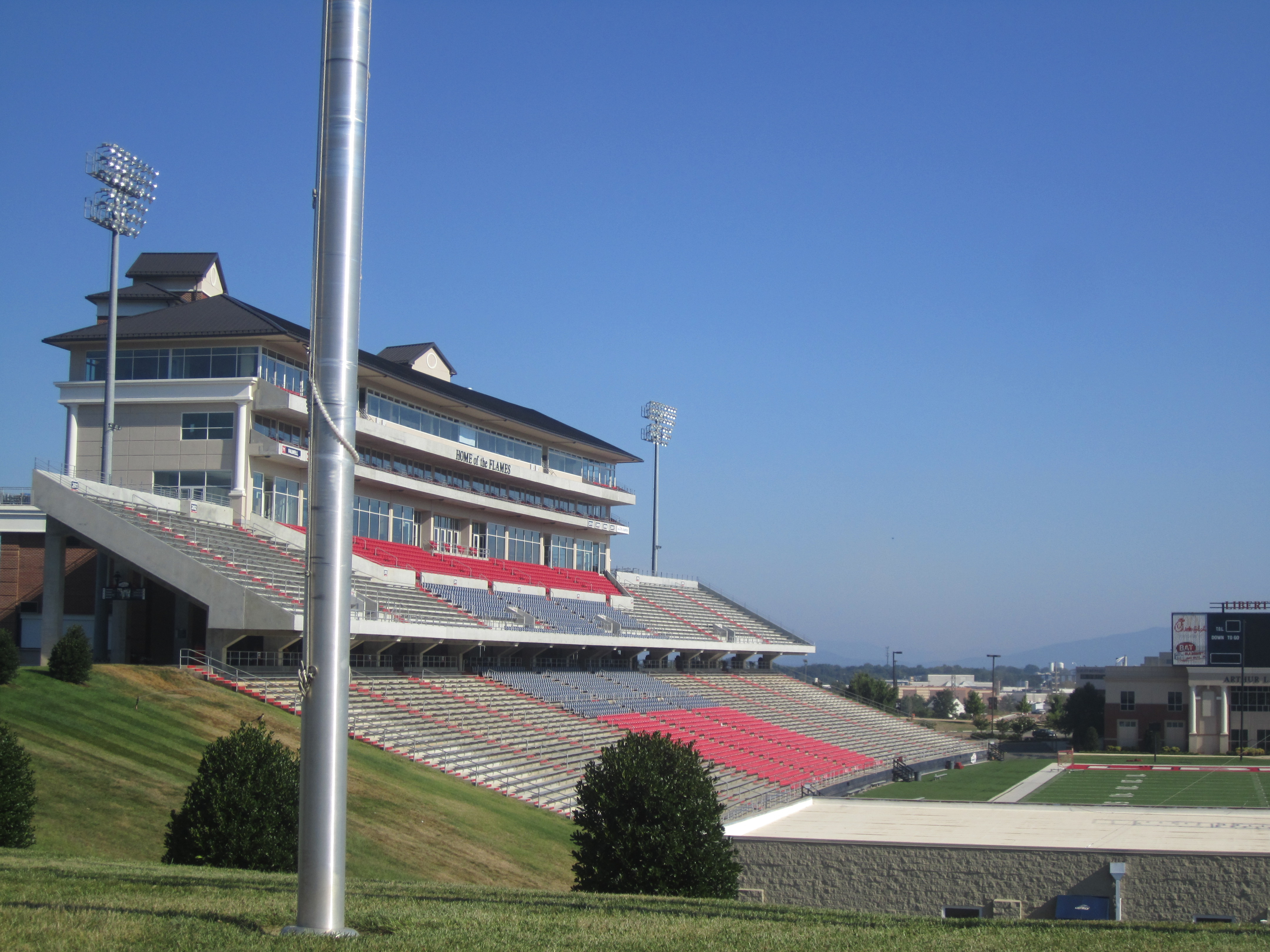 I took photo of Liberty University football stadium with Canon camera.